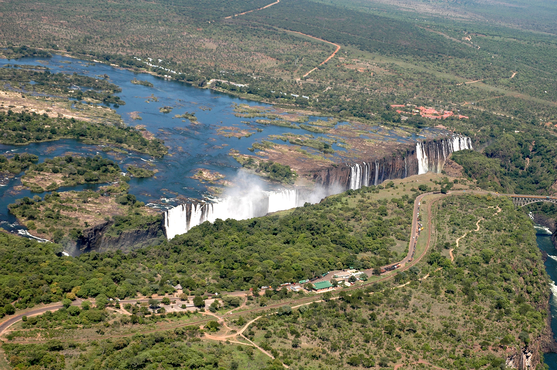 the road to zambia through victoria falls This is an image with the theme "Africa on the Move or Transport" from: Zimbabwe